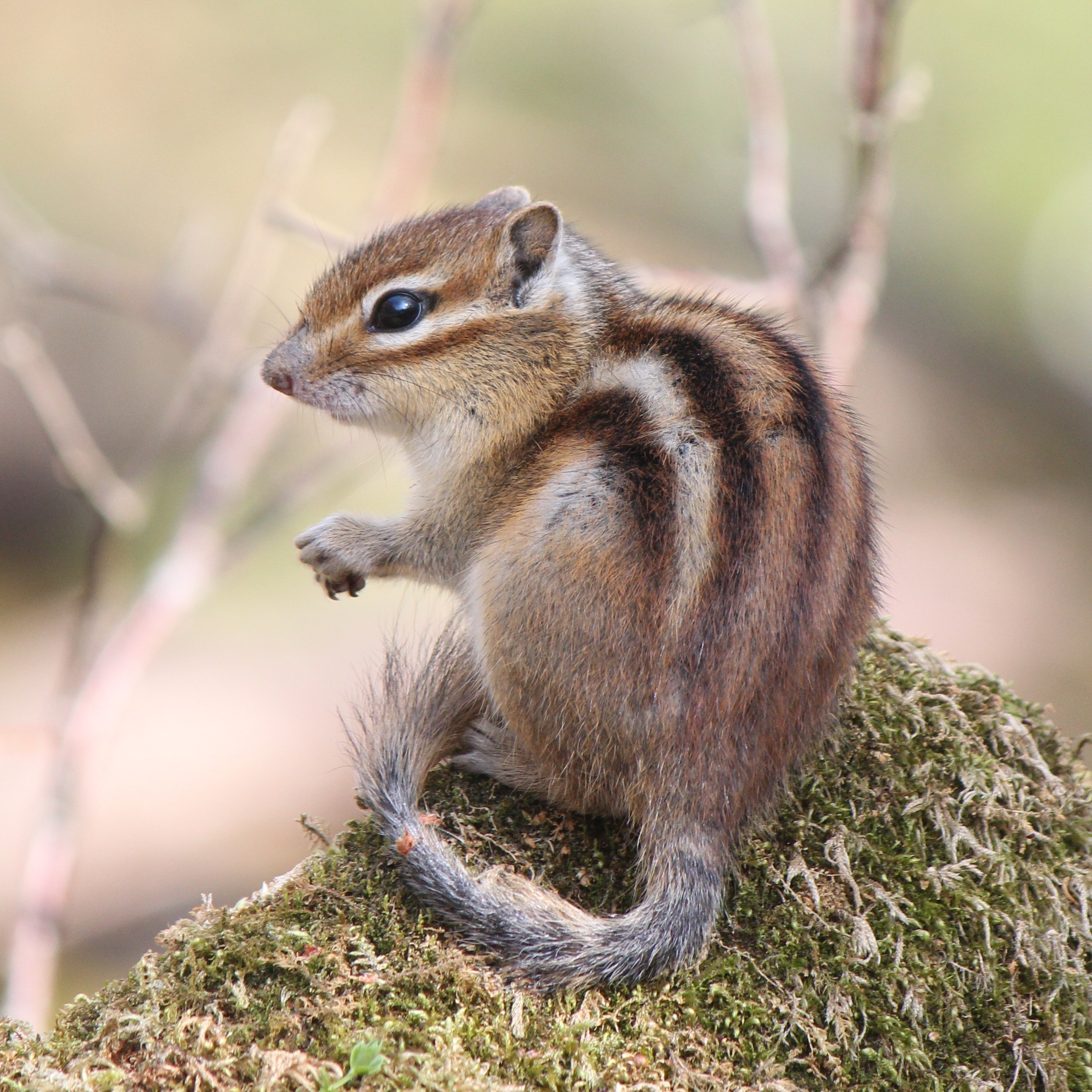 Tamias sibiricus barberi, in Mount Oike, Higashiomi, Shiga prefecture, Japan.